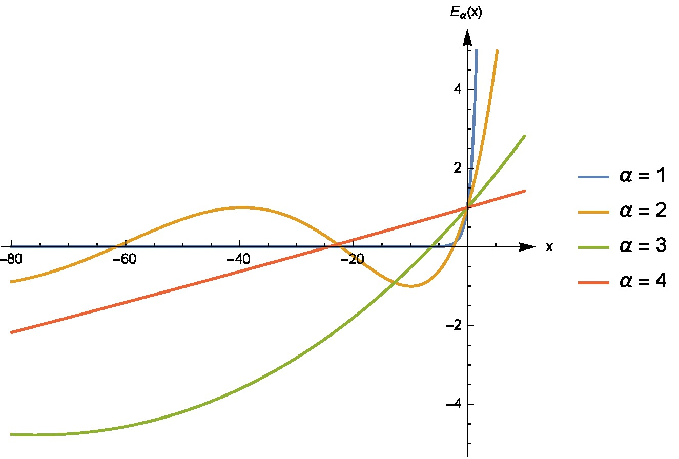 Função de Mittag-Leffler de um parâmetro para "α" inteiro.